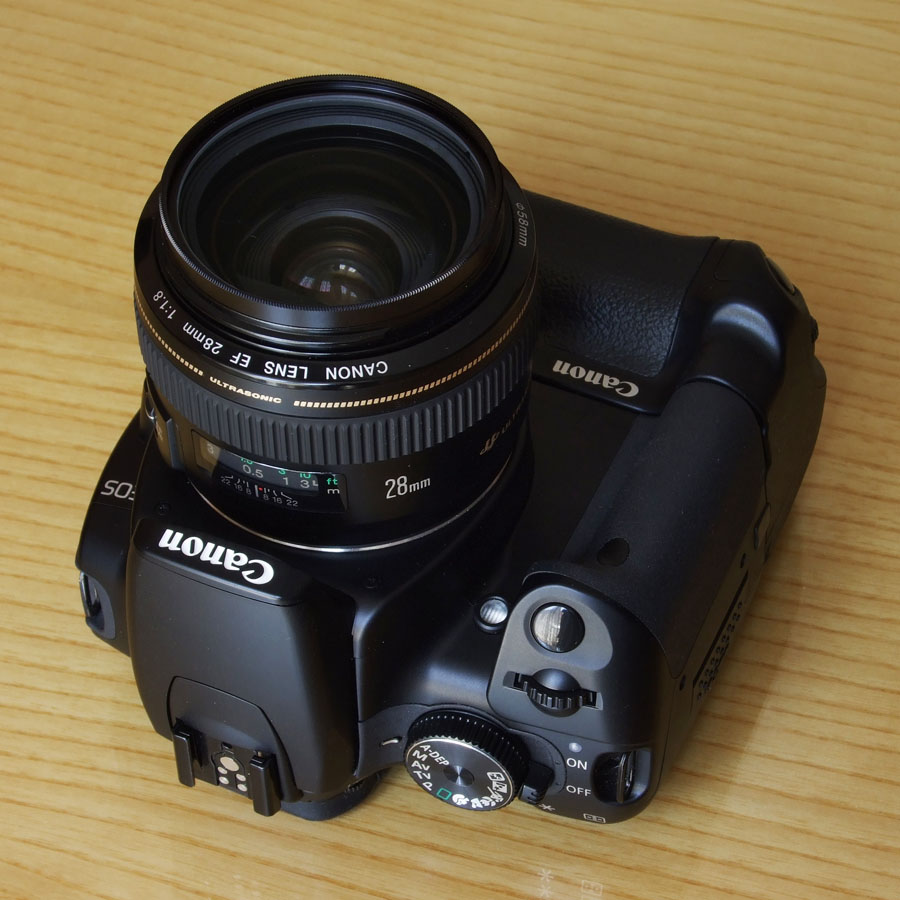 Canon EOS 400D with EF 28 f1.8 and battery grip